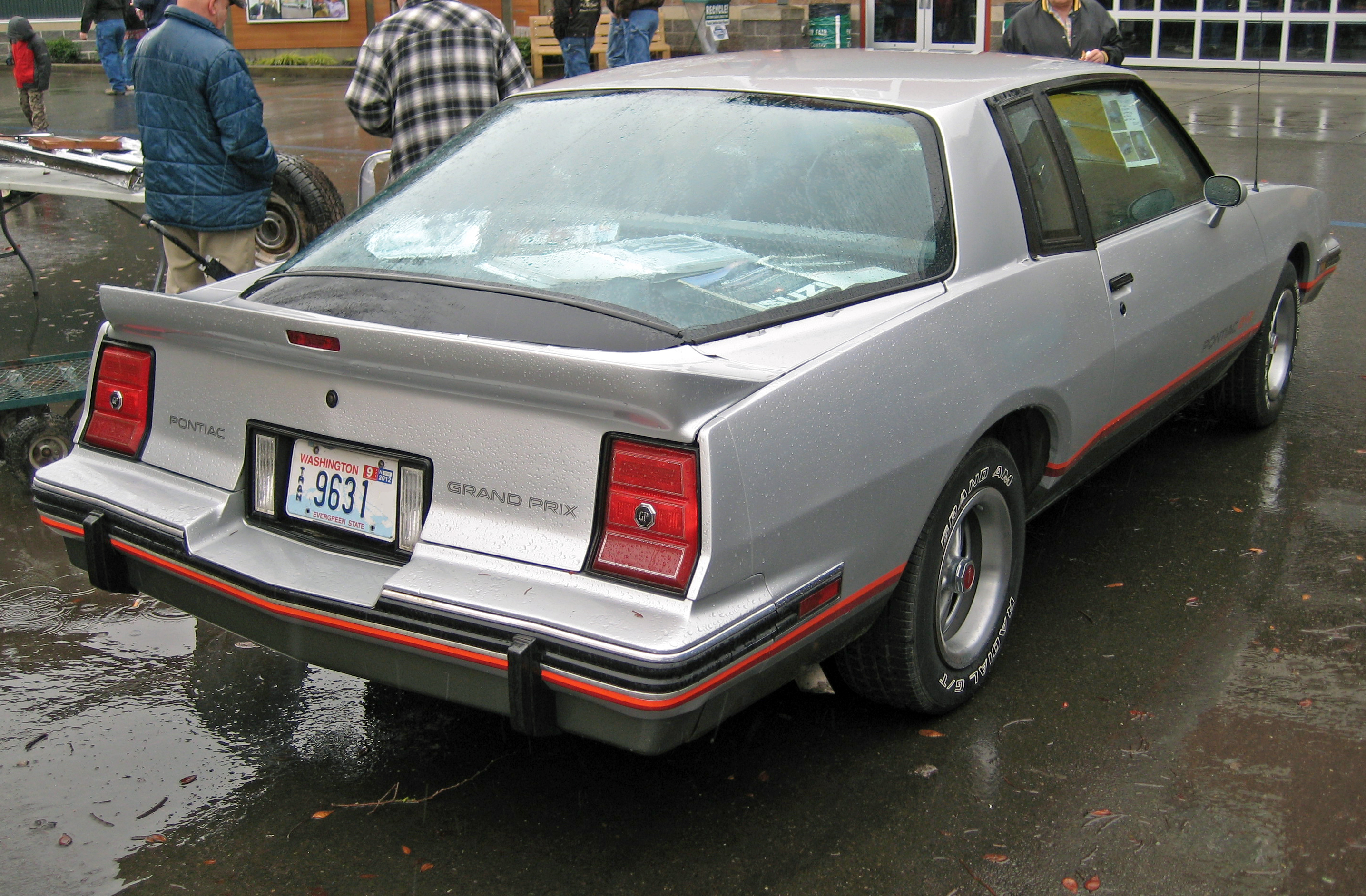 Various body mods on this limited production 1986 Pontiac Grand Prix 2+2 were to homologate the styling tweaks for NASCAR racers. A small number were built, all at Canada's St. Therese, Quebec, plant.